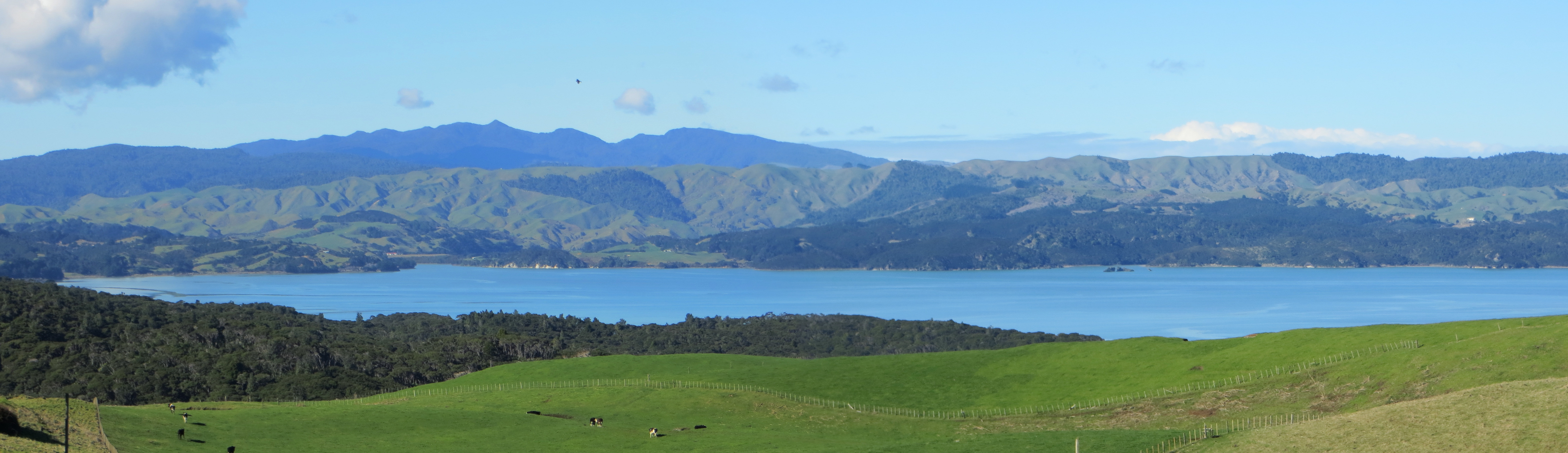 Aotea Harbour, view from Phillips Road to south east, Waikato Region, North Island, New Zealand